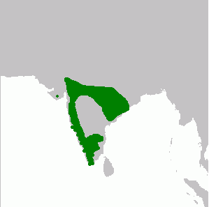 Range of Pomatorhinus horsfieldii, based on Rasmussen and Anderton (2005)